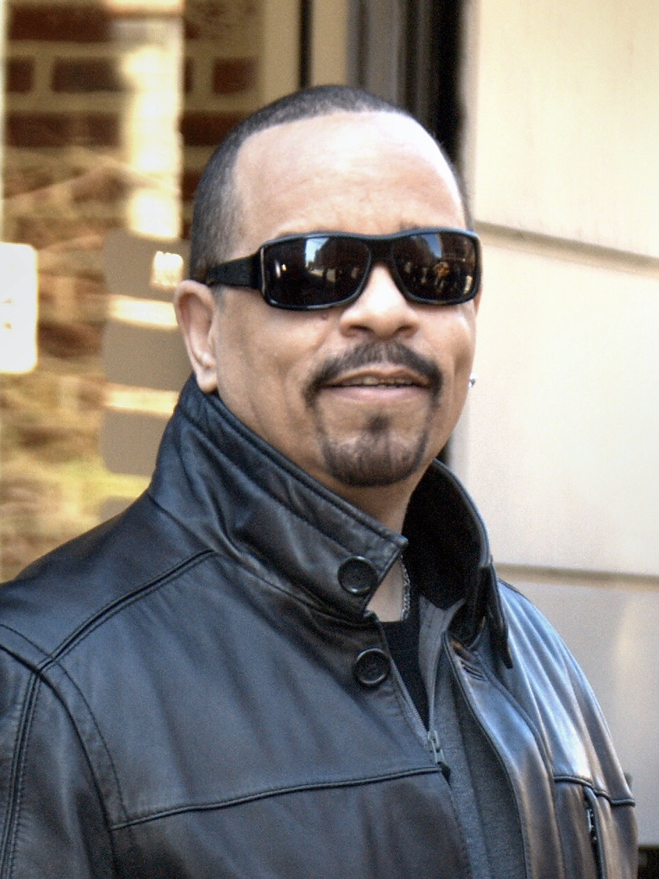 Ice-T near the Meat Packing District in Manhattan on set of Law & Order: Special Victims Unit.